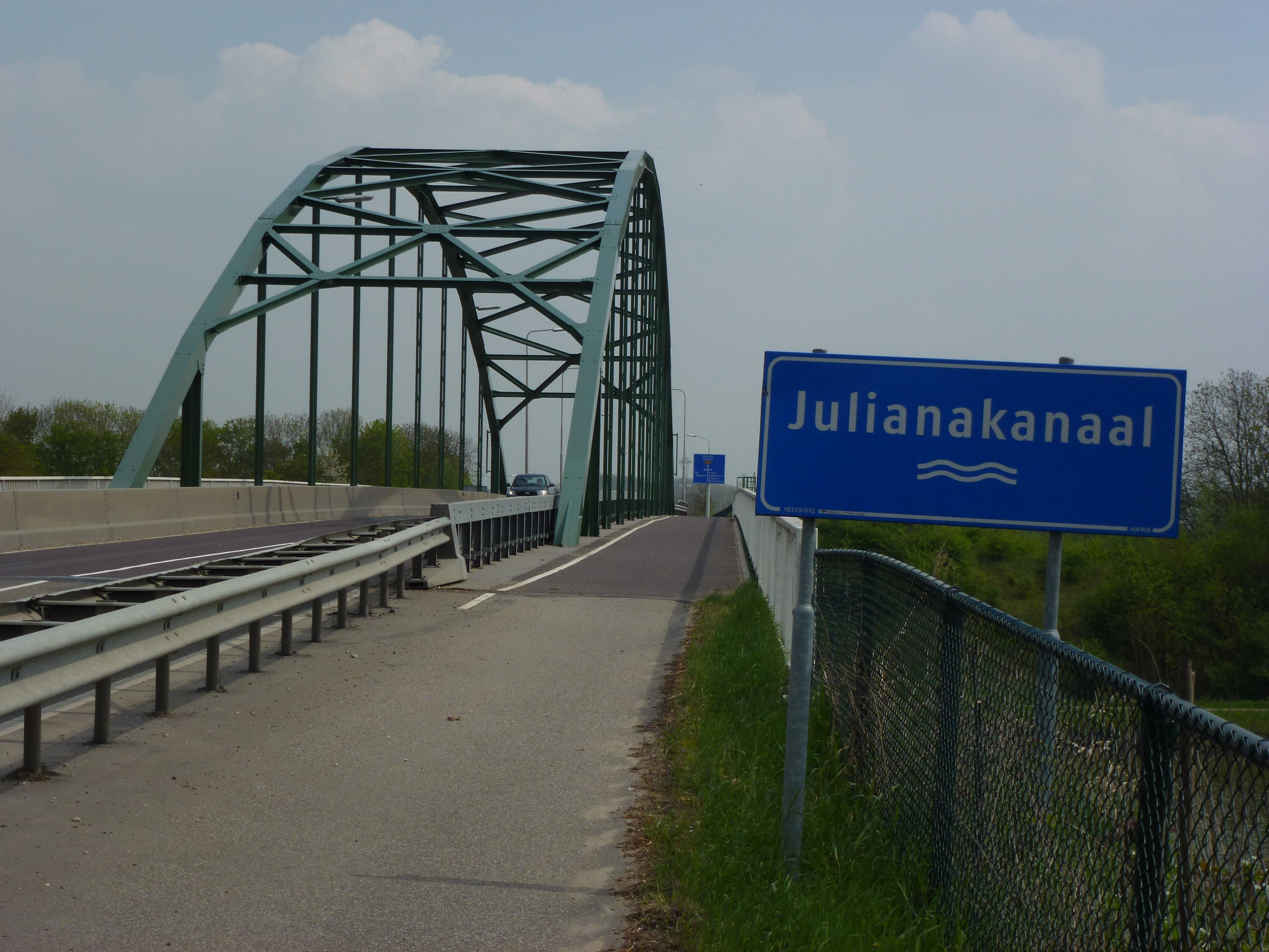 Roosteren (Echt-Susteren) brug over Julianakanaal